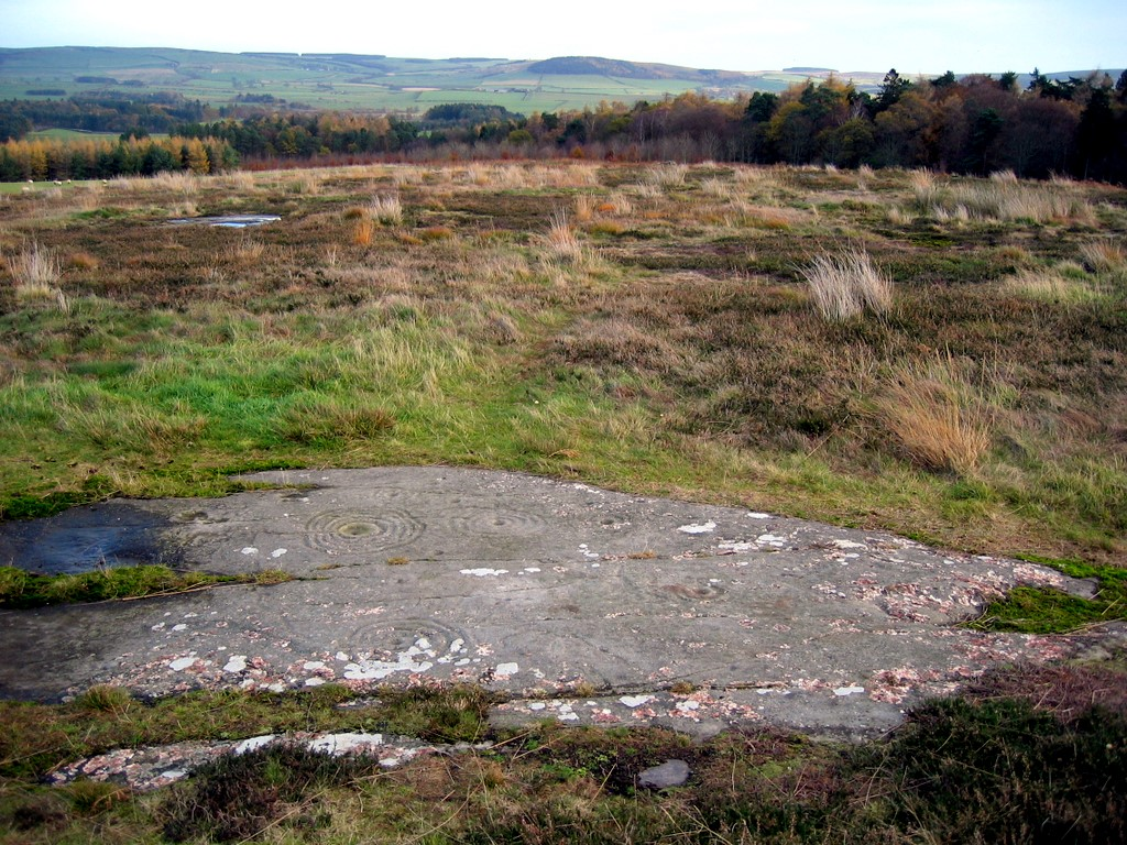 Weetwood Moor Famous for its prehistoric cup and ring marked rocks.